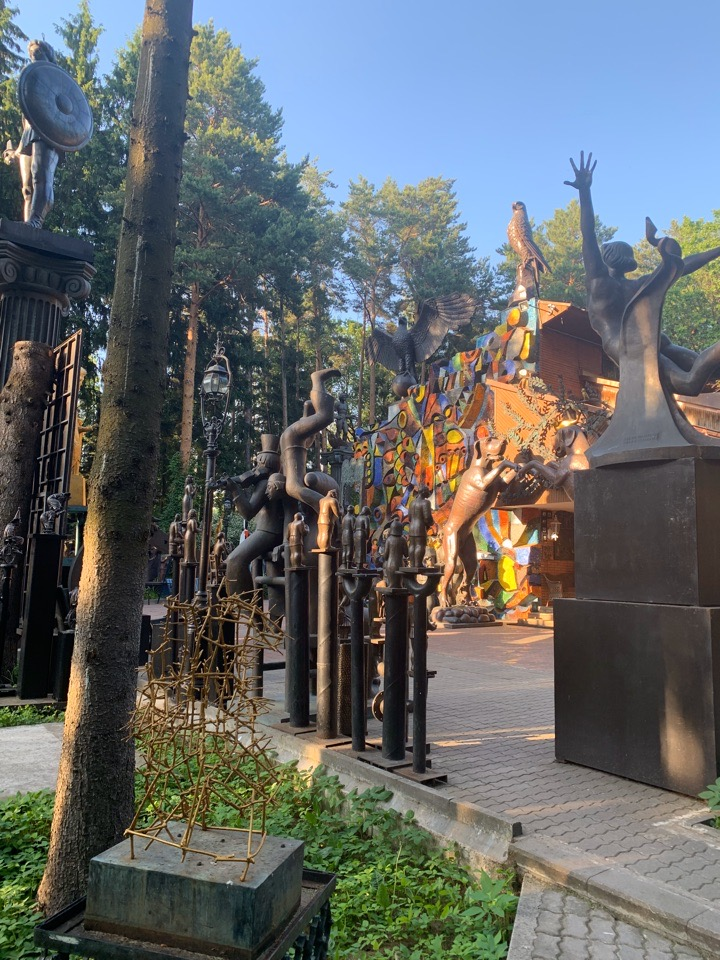 Дом-музей Зураба Церетели в Переделкине